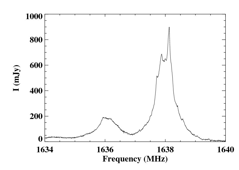 OH maser emission from Arp 220. The lines shown are the 1665 and 1667 MHz transitions, which have been redshifted to lower frequency. The data shown here were acquired using the Arecibo observatory.